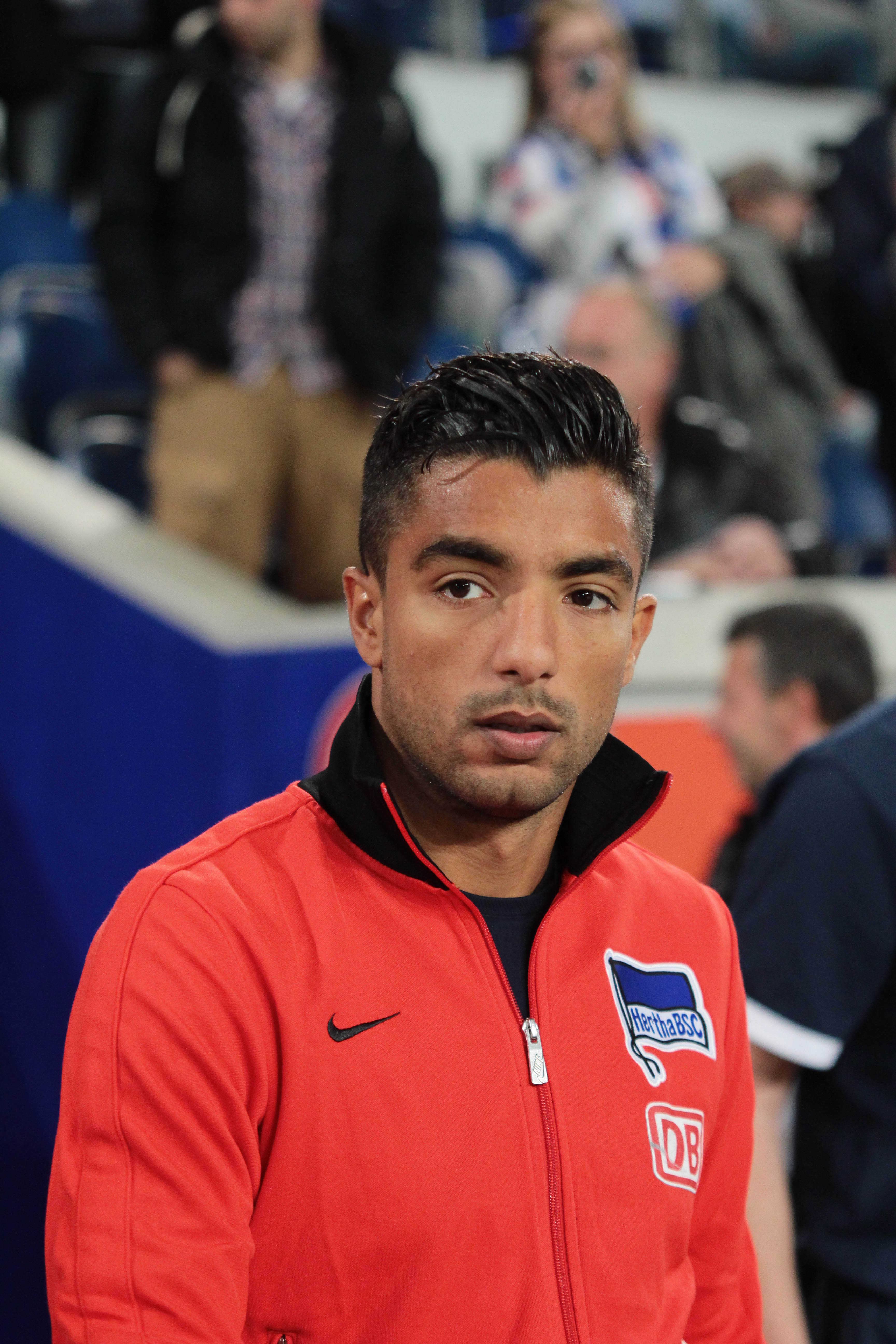 German/Tunisian footballer Sami Allagui, Hertha BSC